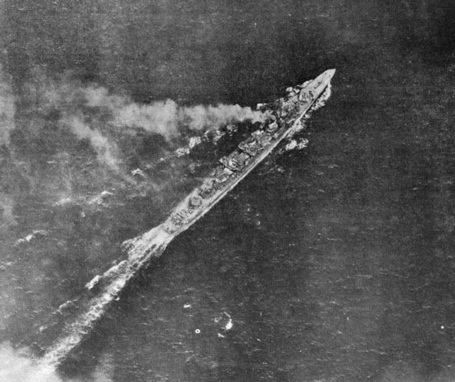 Japanese destroyer Shimakaze shortly before sinking by US Navy aircraft in Ormoc Bay, 11 November 1944.